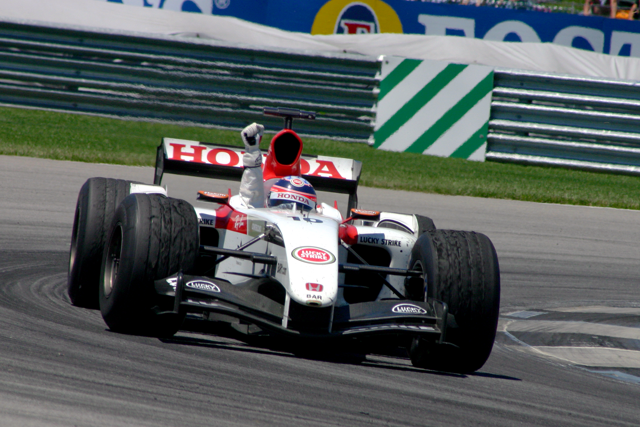 Takuma Sato celebrates his first Formula One podium finish, USGP, Indianapolis, 2004